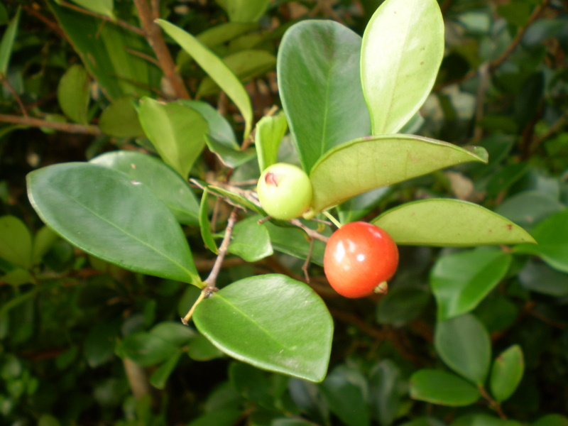 'Cedar Bay Cherry', fruit and branch.